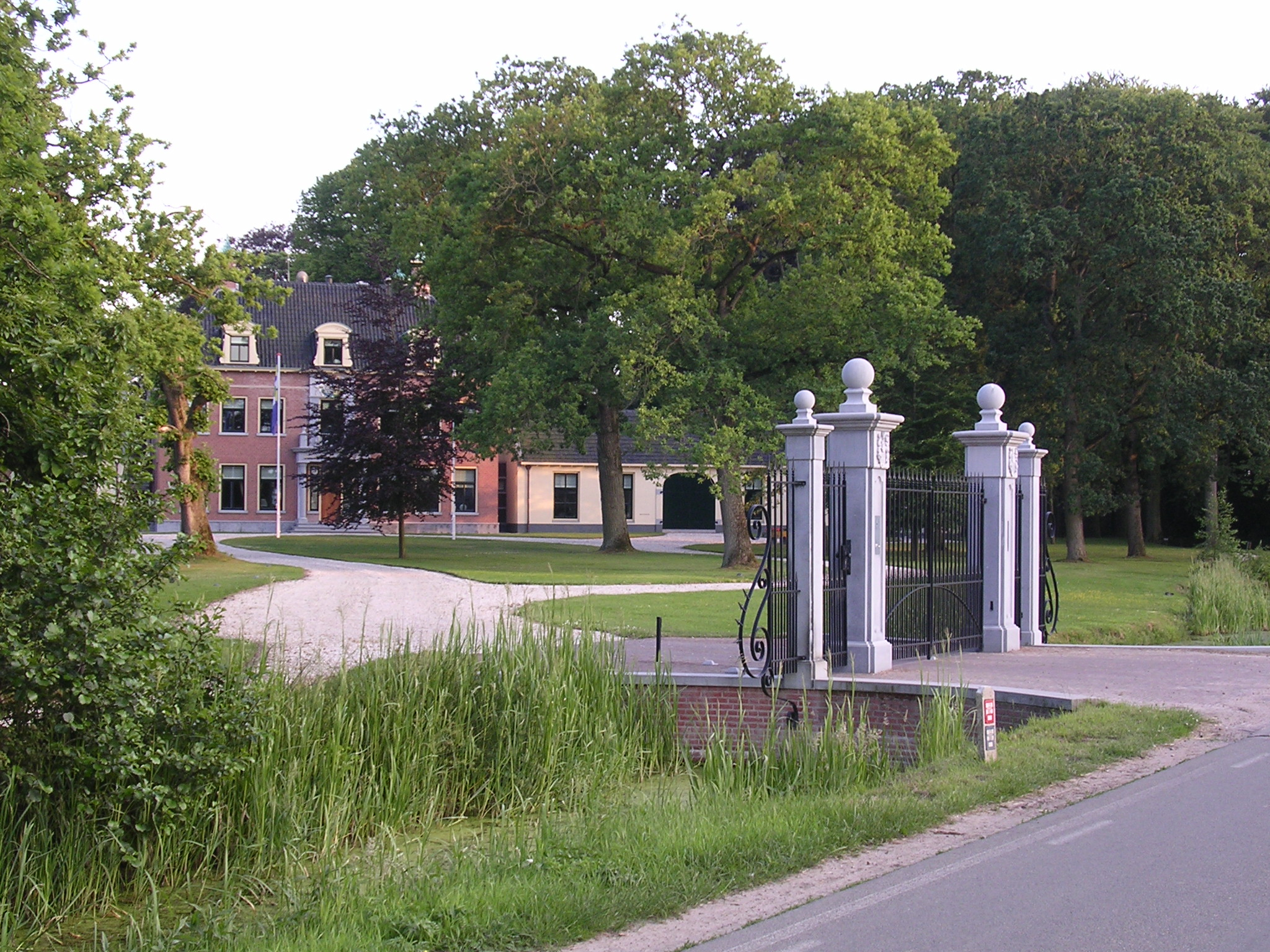 Rinsmastate near the village of Driesum